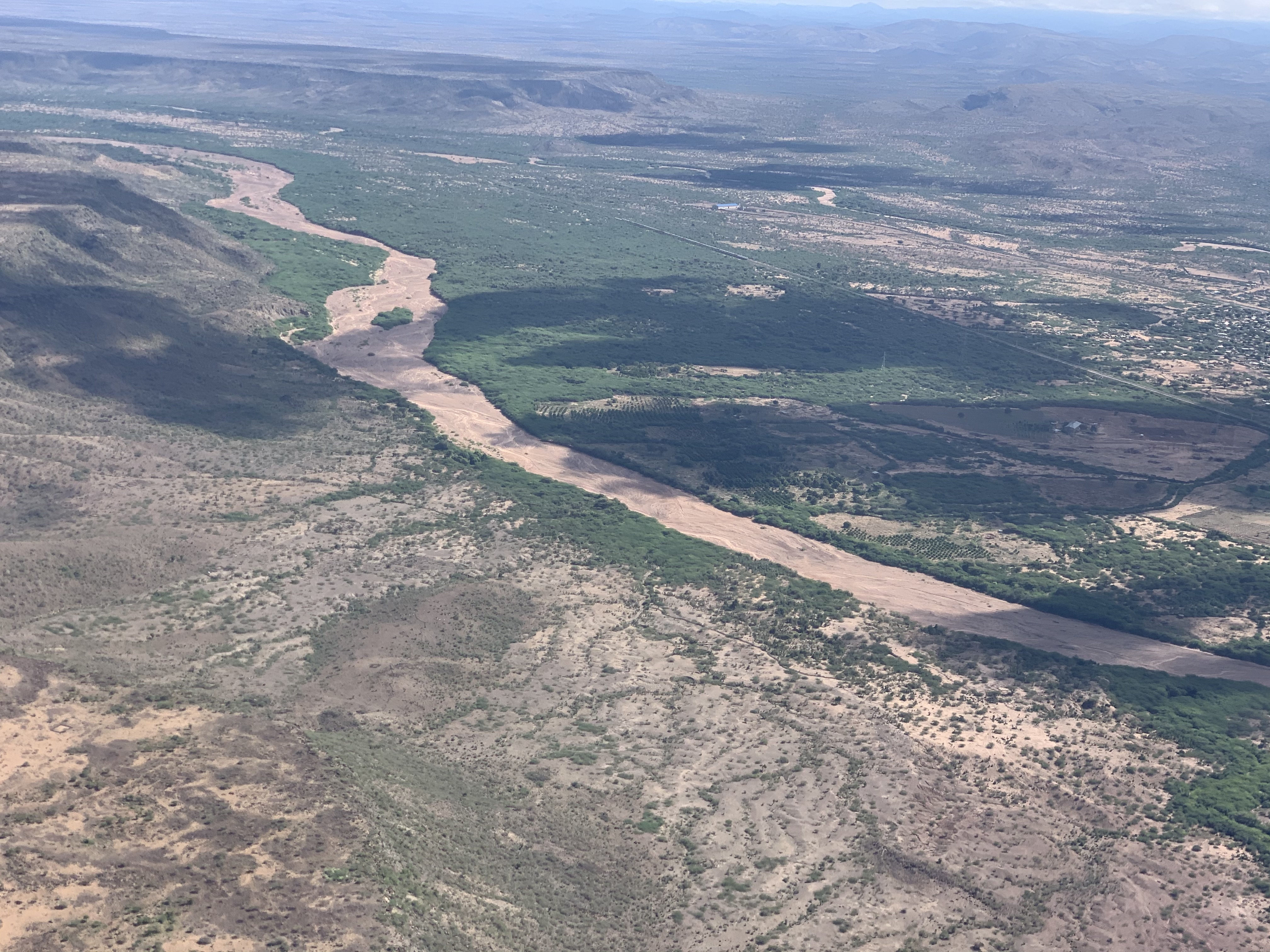 Aerial View of Dire Dawa, arriving at Dire Dawa airport This is an image with the theme "Africa on the Move or Transport" from: Ethiopia